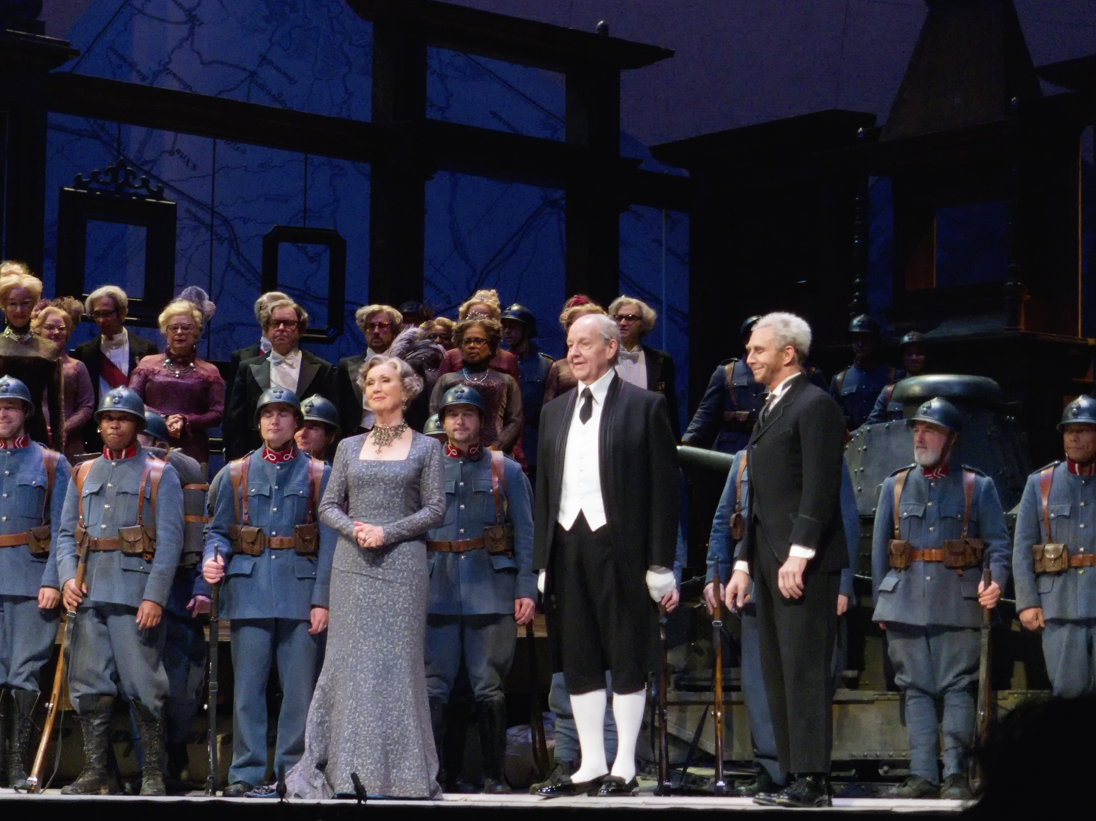 (L to R) Ann Murray - Marquise of Berkenfield James Courtney - Hortentius Jack Wetherall - Notary La Fille du Régiment (The Daughter of the Regiment) Metropolitan Opera House, Production and costumesː Laurent Pelly, December 24, 2011